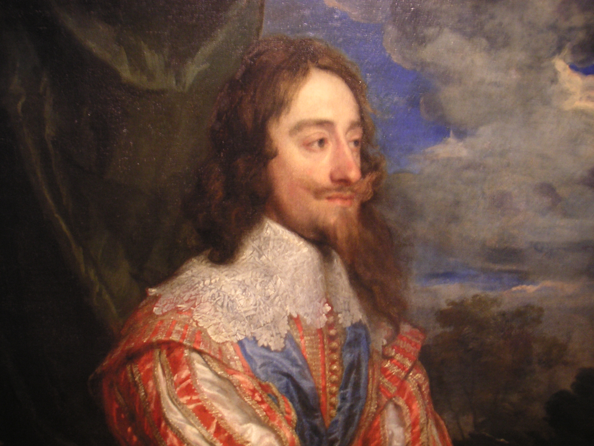 Portrait of Charles I - detail from Van Dyck's double portrait